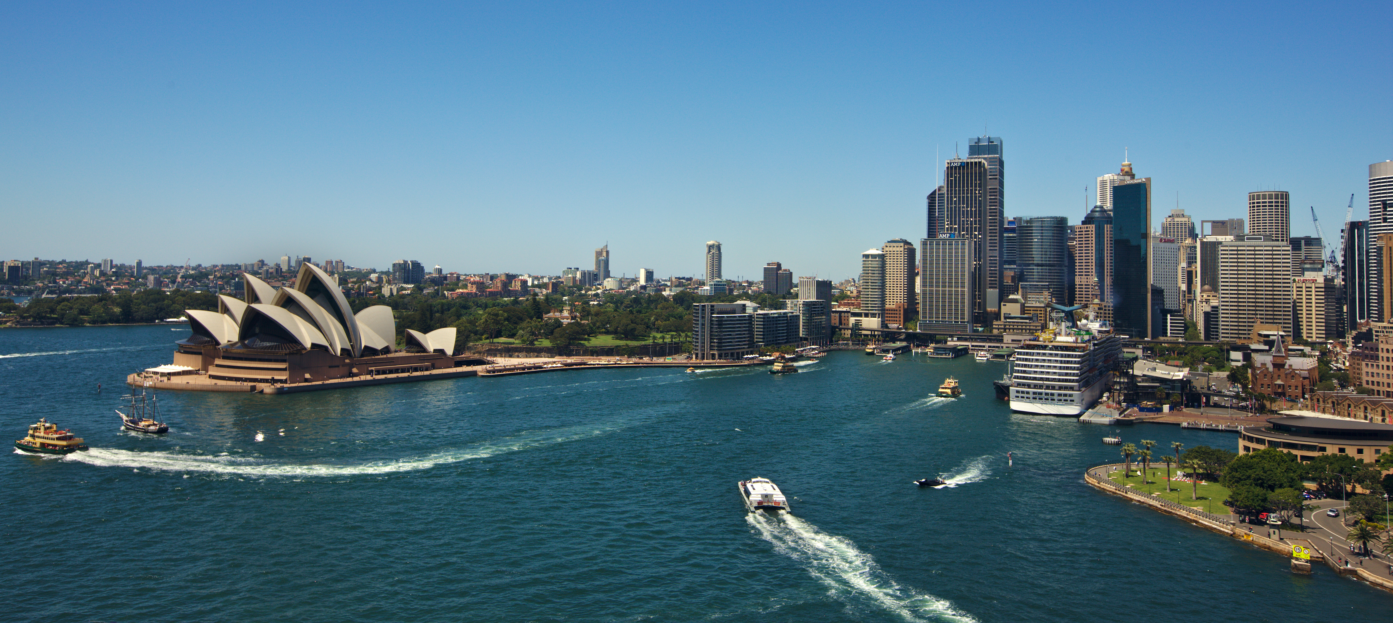 Panoramic style wide angle view of Circular Quay from Sydney Harbour Bridge showing clearly the major features.